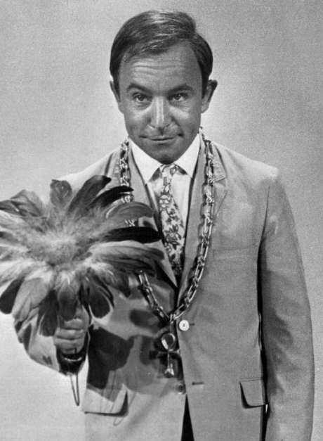 Photo of Henry Gibson as he sometimes appeared on Rowan and Martin's Laugh-In. (Cropped version of original image).